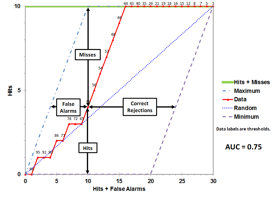 This figure shows the TOC curve with labels relating to the entries in the contingency table for each threshold.